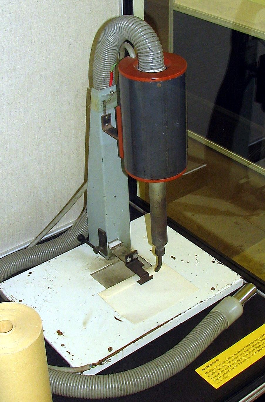 This hot air blower was used by Department M of the Stasi for opening envelopes.